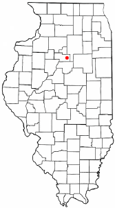 Category:Illinois_city_locator_maps Summary Location of Toluca within Marshall County and Illinois.